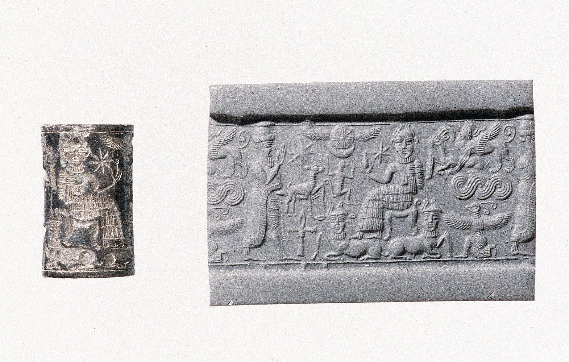 Cylinder seal and modern impression. Royal worshiper before a god on a throne; human-headed bulls below,ca. 1820–1730 B.C. Old Syrian